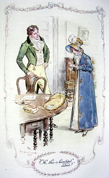 Illustration for ch.27 of Mansfield Park, in the Series of English Idylls, published by J.M Dent & Co. (London) and E.P. Dutton & Co. (New York). “ Oh, this is beautiful, indeed! ”